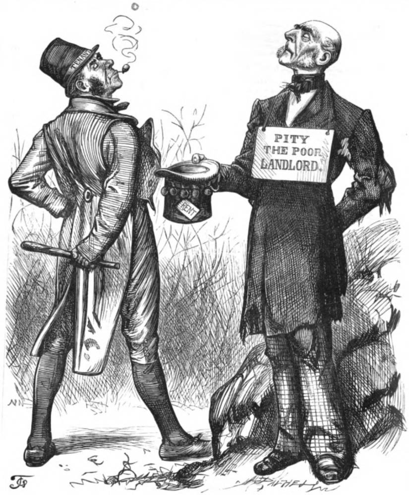 Irish landlord begs for rent, while tenant arrogantly smokes while carrying a weapon behind his back. Depicts the "upside-down" situation resulting from the activism of the Irish National Land League.